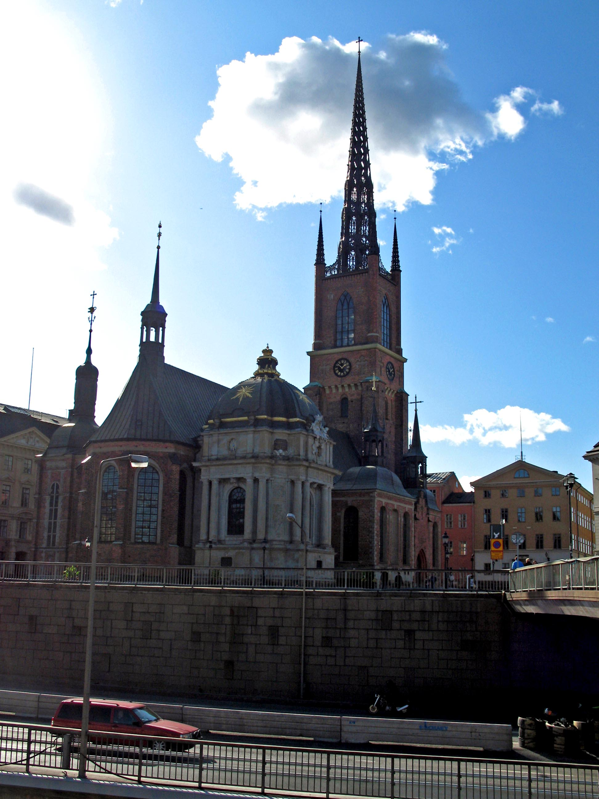 The Riddarholmen Church in Stockholm